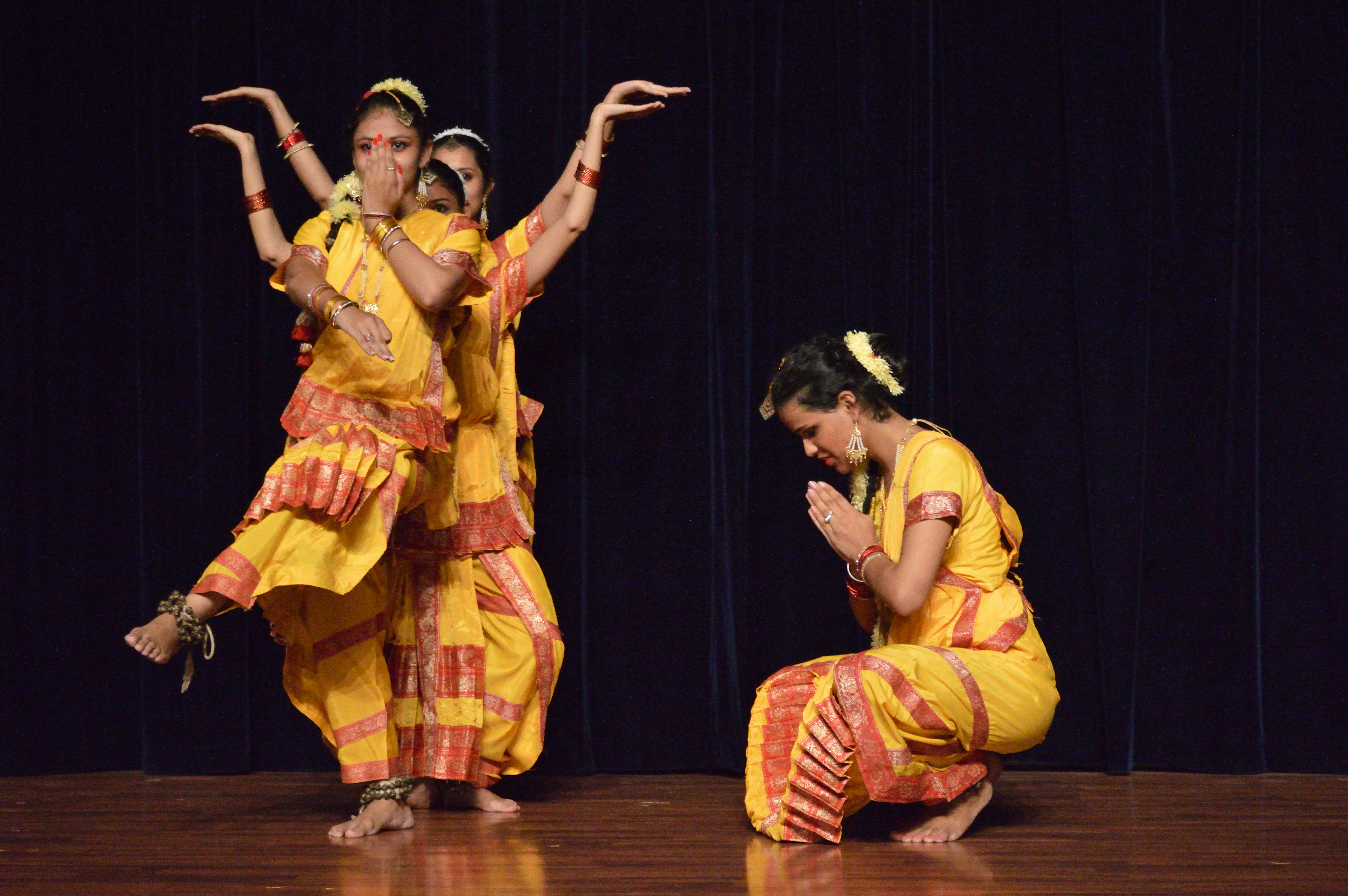 This photograph was taken during the 'WikiConference India 2016' or WCI2016. It was held at the 'Chandigarh Group of Colleges' (CGC), Landran, Mohali on 5, 6, and 7 August 2016. About 200 Wikipedians from India, Bangladesh, Srilanka and the USA were participated at the three day event.